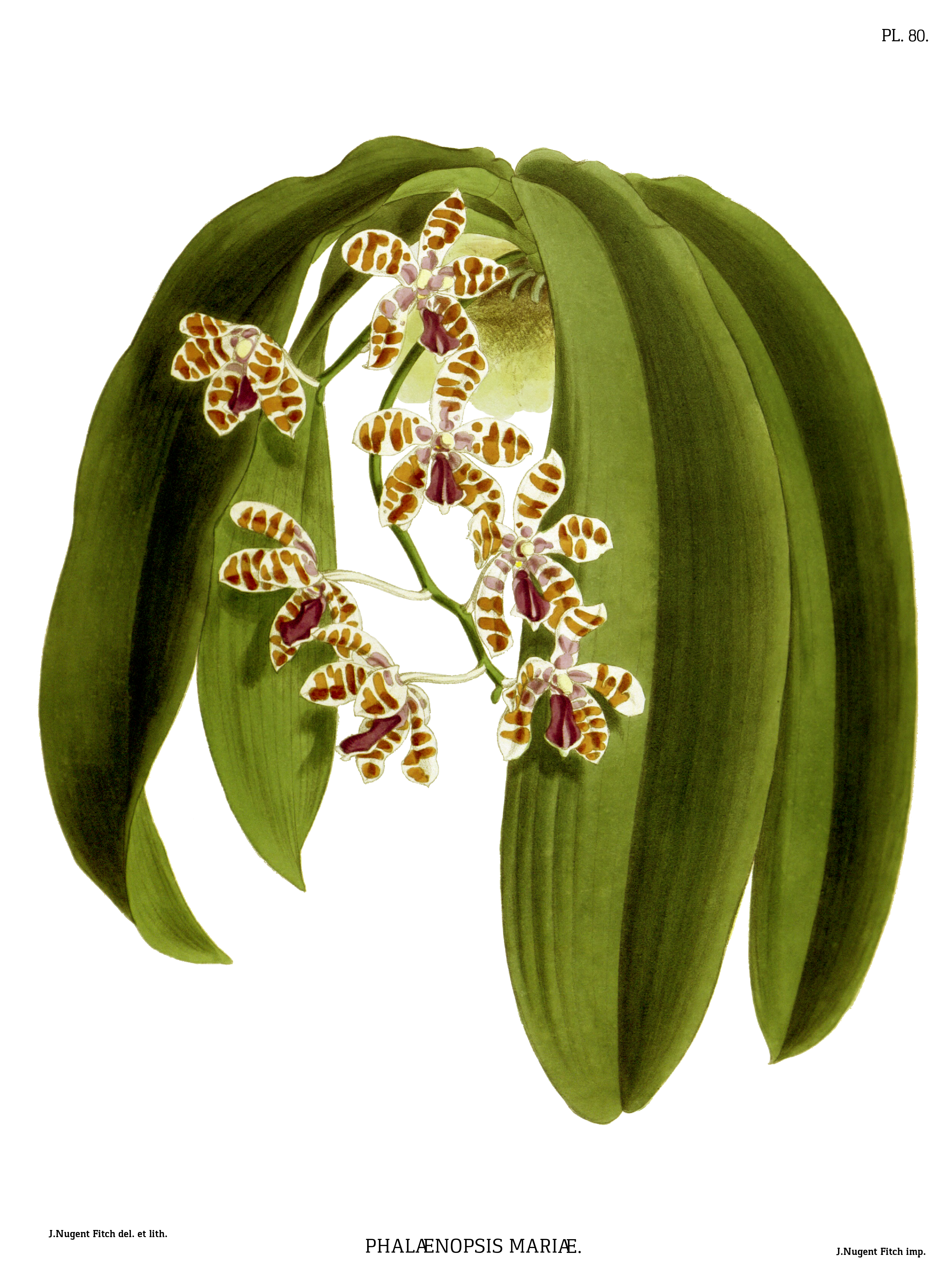 Orchid album :comprising coloured figures and descriptions of new, rare and beautiful orchidaceous plants /Conducted by Robert Warner and Benjamin Samuel Williams; the botanical descriptions by Thomas Moore; the coloured figures by John Nugent Fitch.